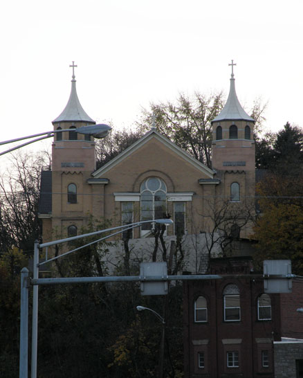 Picture of St. Nicholas Croatian Church at 24 Maryland Avenue in Millvale, Pennsylvania, on November 7, 2009. The church was built in 1900, and is listed on the National Register of Historic Places. Architect: Frederick C. Sauer (1860–1942). The church is also noted for its murals by Maxo Vanka.